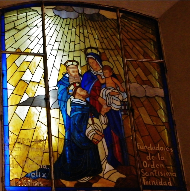 Saint Paul Apostle Church, Cuauhtémoc, Federal District, Mexico